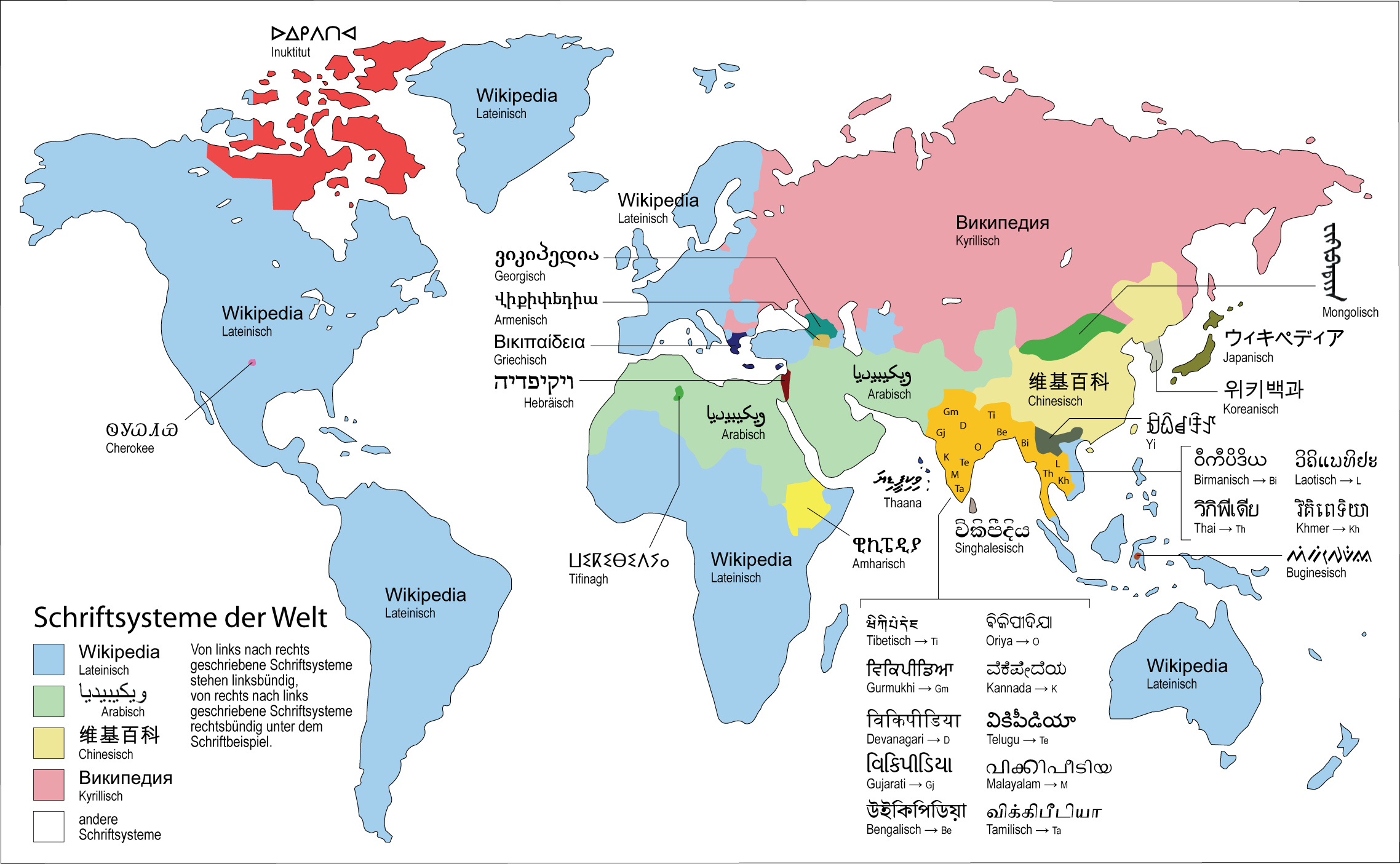 Writing Systems of the World